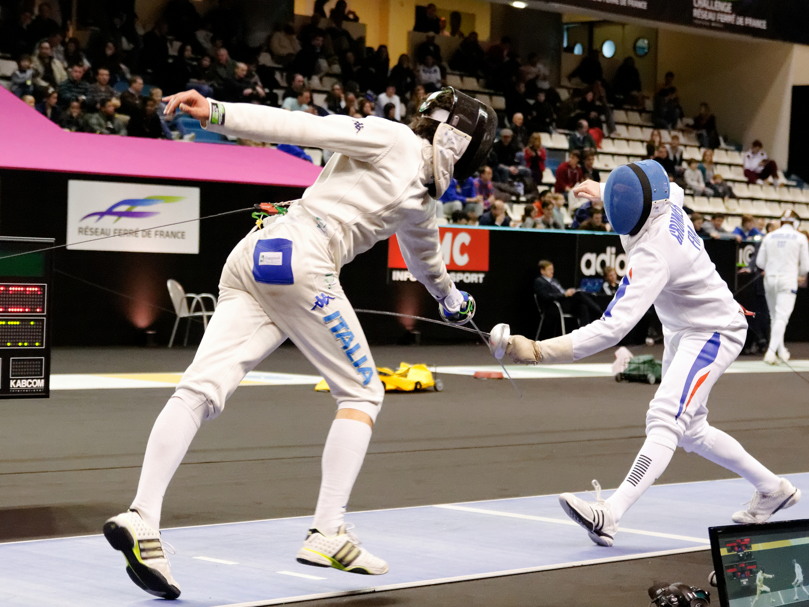 1/16 finals of the Challenge Réseau Ferré de France–Trophée Monal 2012: Stefano Carozzo (left) and Gauthier Grumier (right).